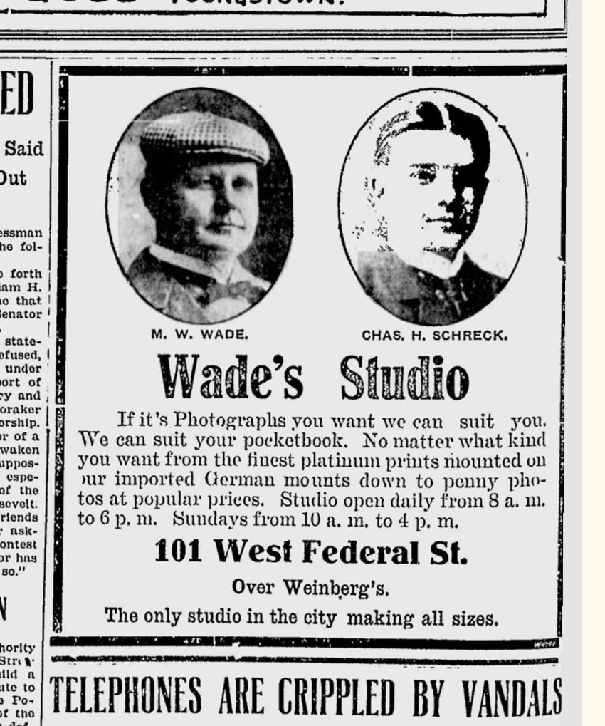 This advertisement was placed in the Youngstown Vindicator Newspaper in 1907